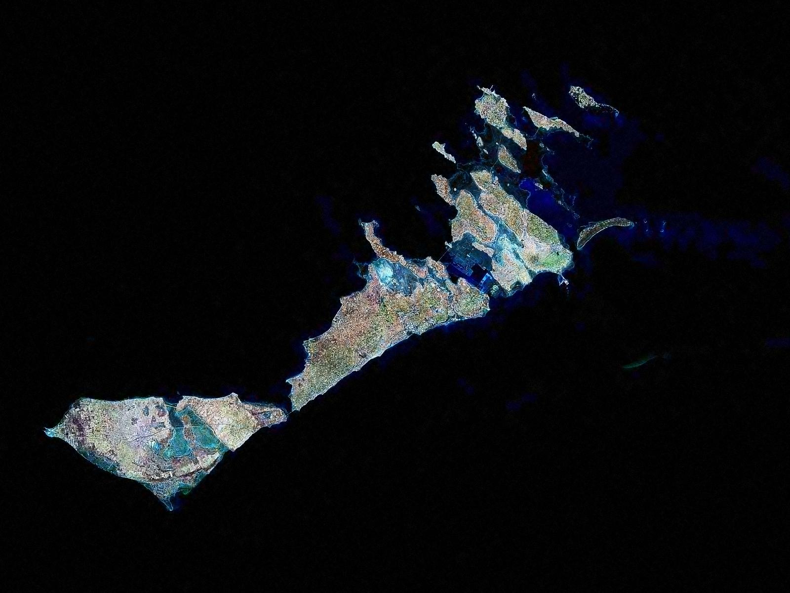 Satellite image of Kerkennah Archipelago (Tunisia)